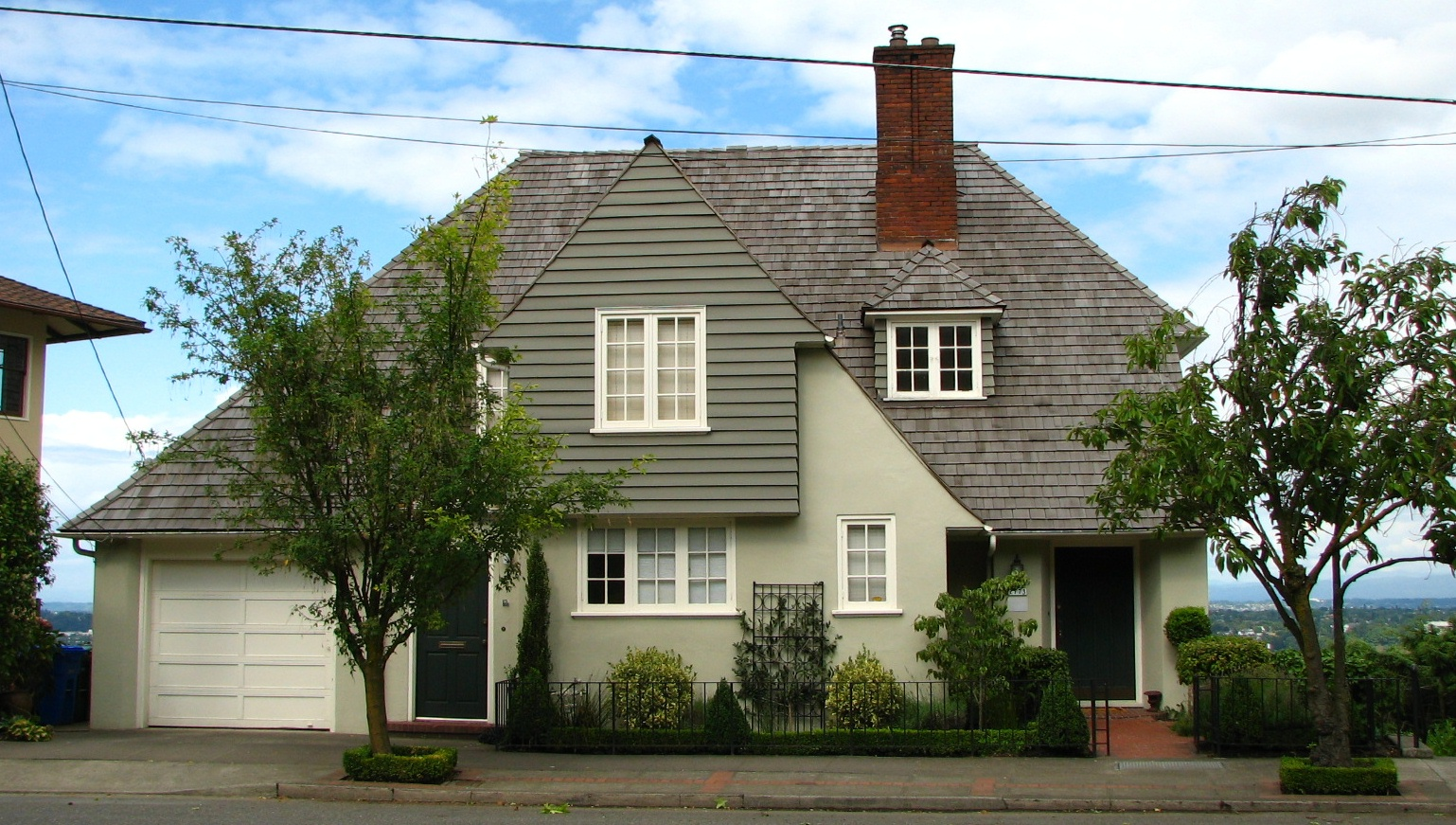 The historic Elizabeth Ducey House (built 1926) at 2773 Northwest Westover Road in Portland, Oregon, United States, is listed on the US National Register of Historic Places.